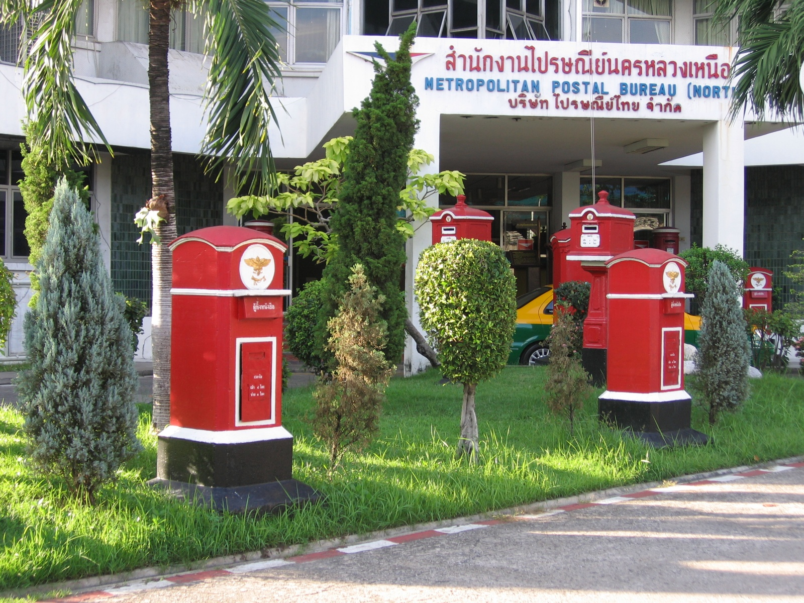 Various kinds of old Thai mailboxes. Outside of Philatelic Museum, Phaya Thai district, Bangkok, Thailand.